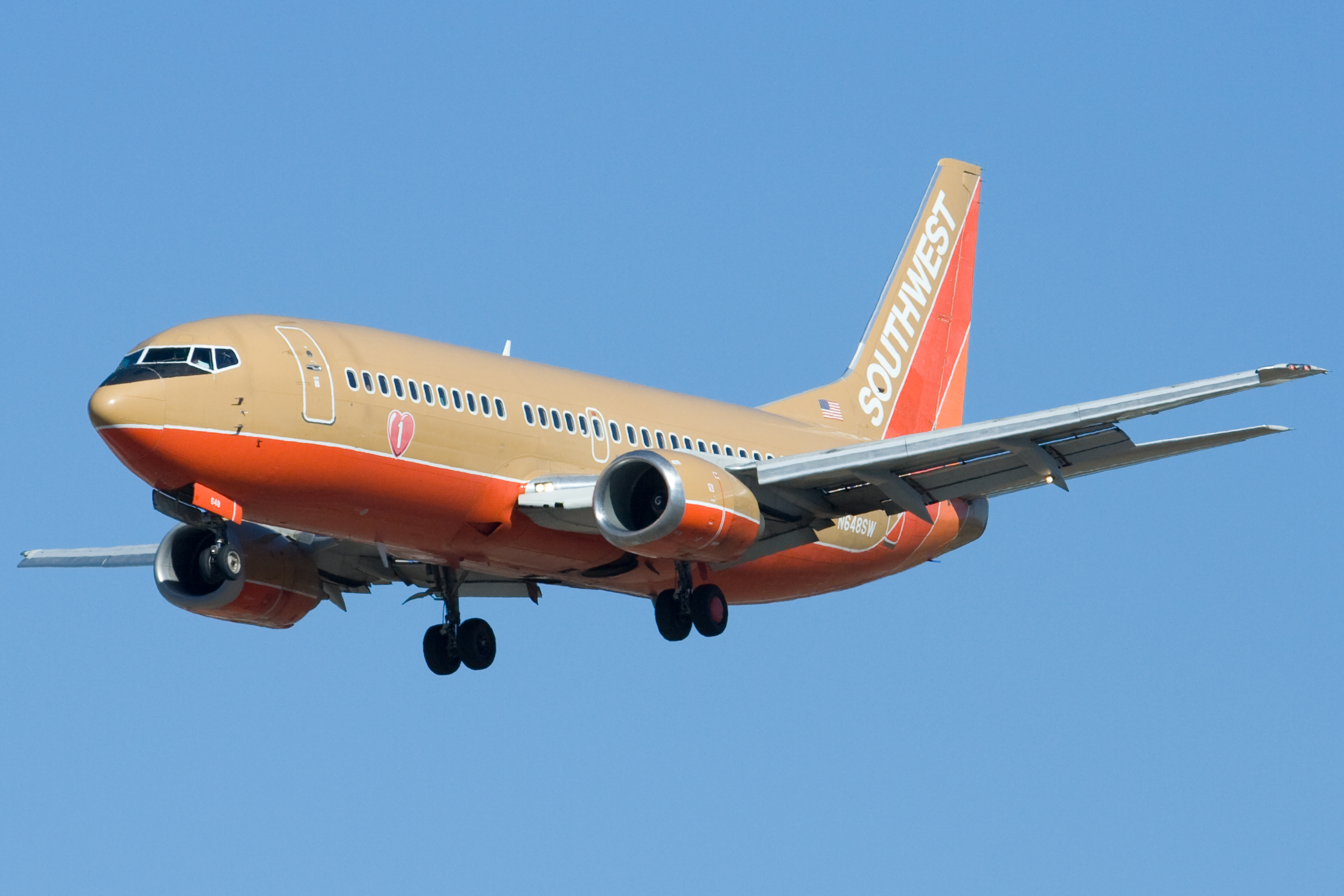 Southwest Airlines Boeing 737-300(N648SW) painted in the airline's original desert gold livery on approach to San Jose International Airport, San Jose, California, United States